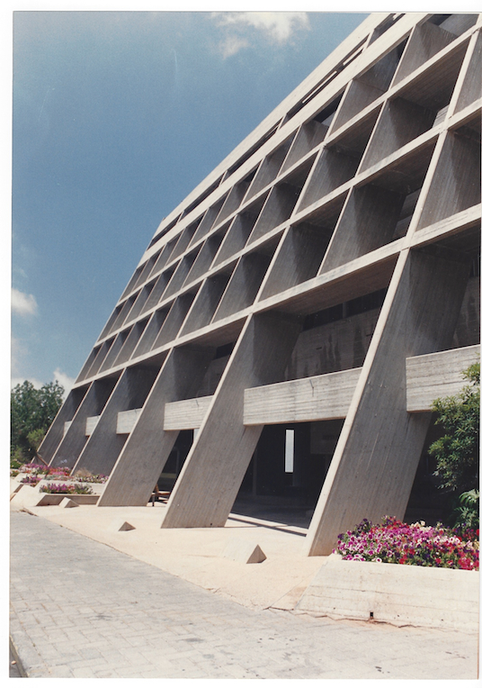 Bni Zion Hospital Haifa - Emanuel Kanner Architect